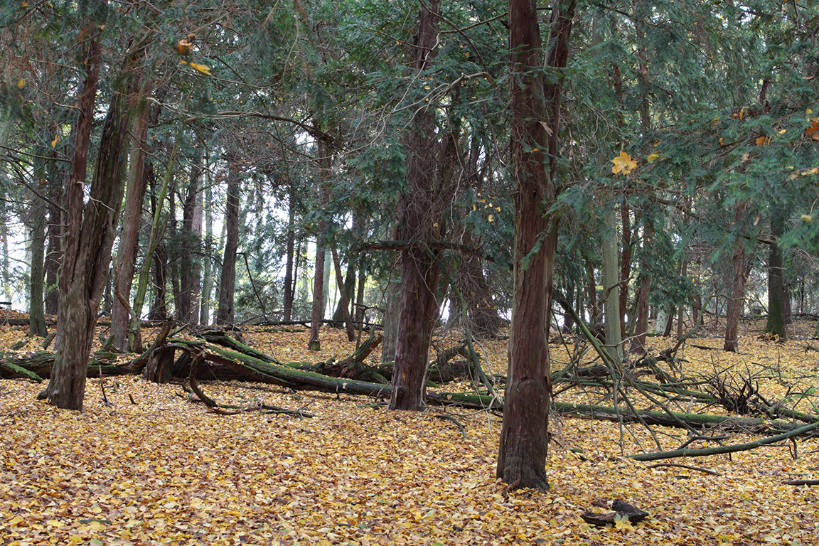 (European Yew), Poland - Nature reserve "Cisy Staropolskie"